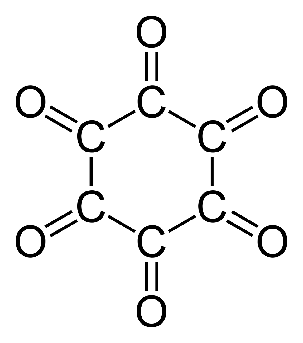 Structural formula of cyclohexanehexone (hexaketocyclohexane, triquinoyl), C6O6.